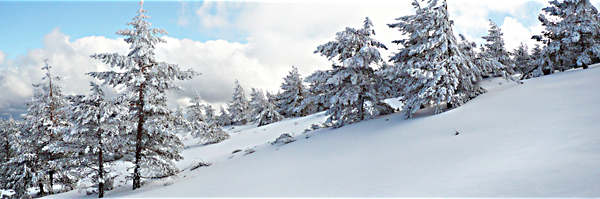 Winter in the ski resort of Manzaneda, Orense (Spain)